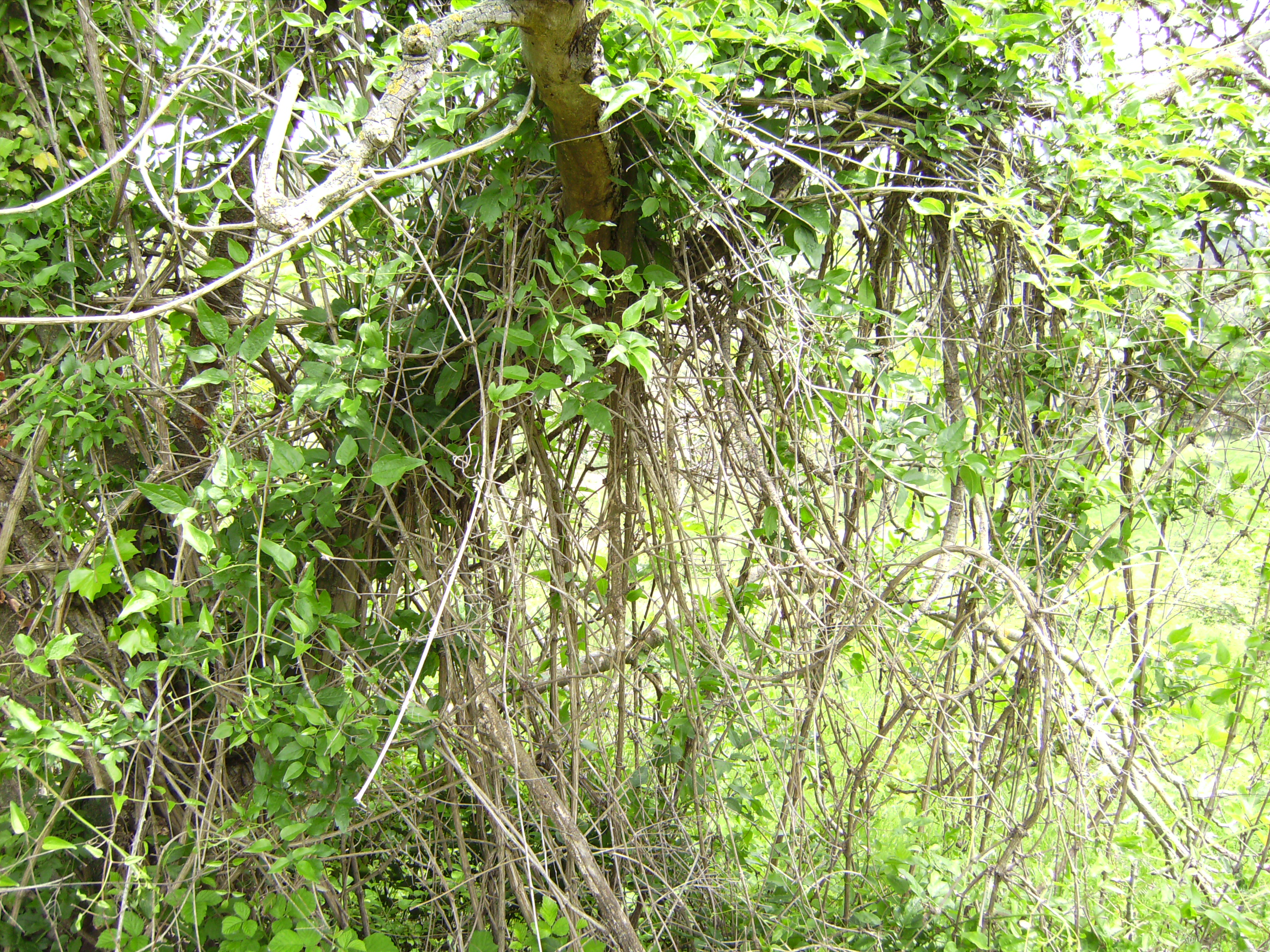 Liana Clematis vitalba hanging on a fig tree, Catalonia